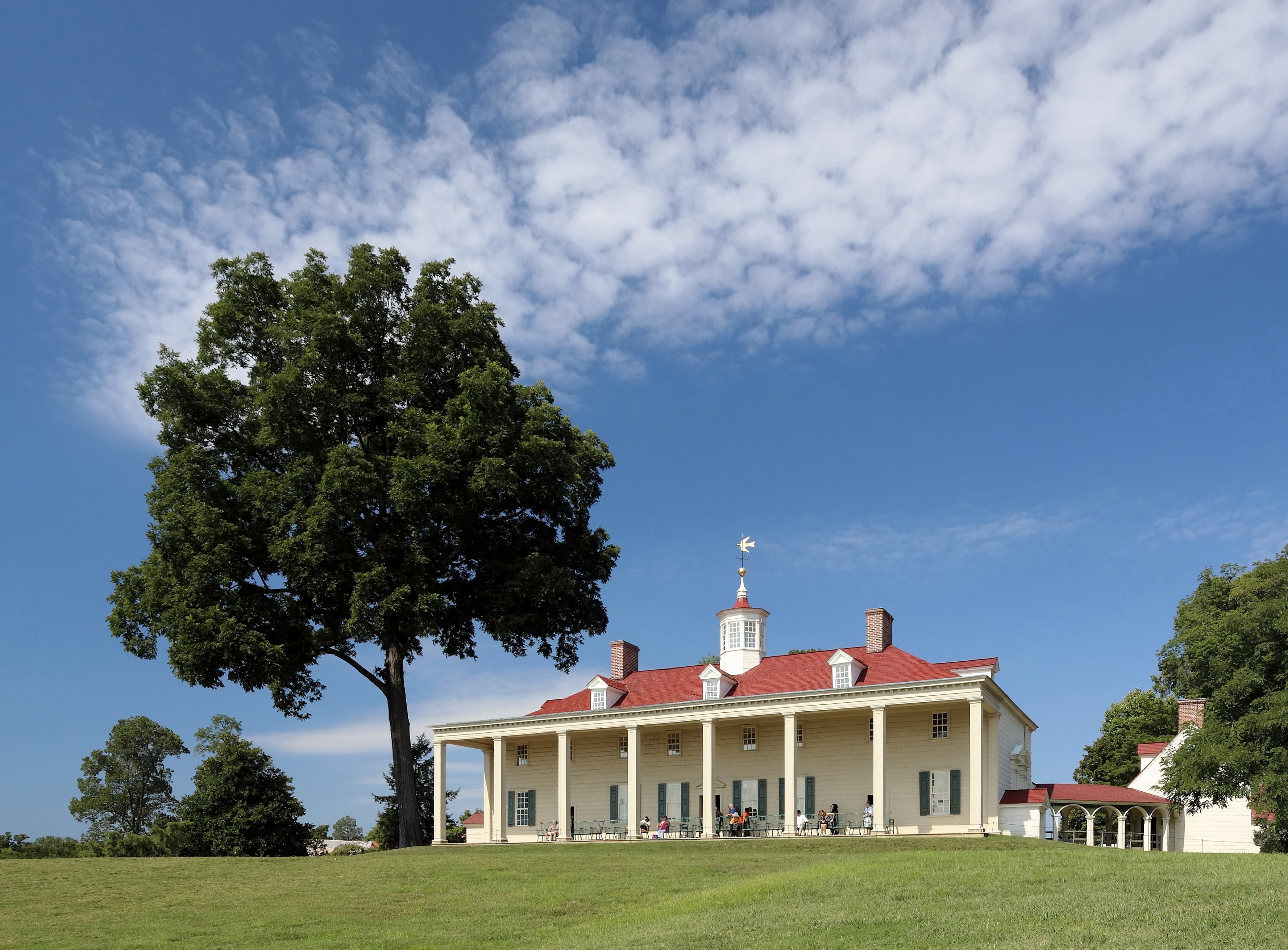 Mount Vernon Estate, Mansion, eastern facade